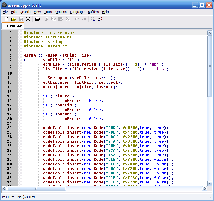 This is an image of SciTE. The source code in the picture is from a project for school.